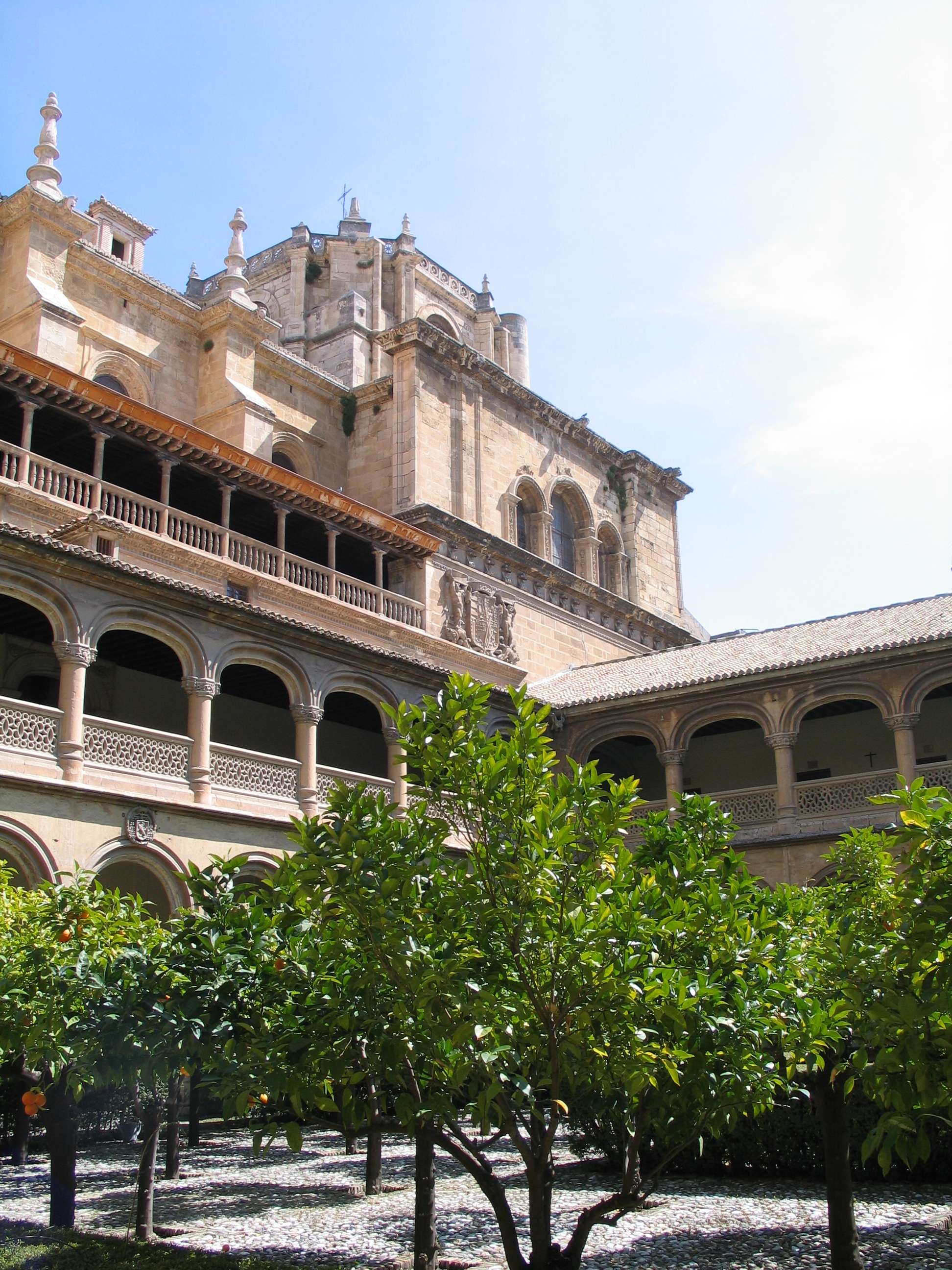 The court yars of the monastery of Saint Jerome in Granada Source: Joonas Lyytinen